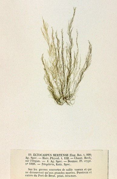 « Ectocarpus mertensii » = Tilopteris mertensii